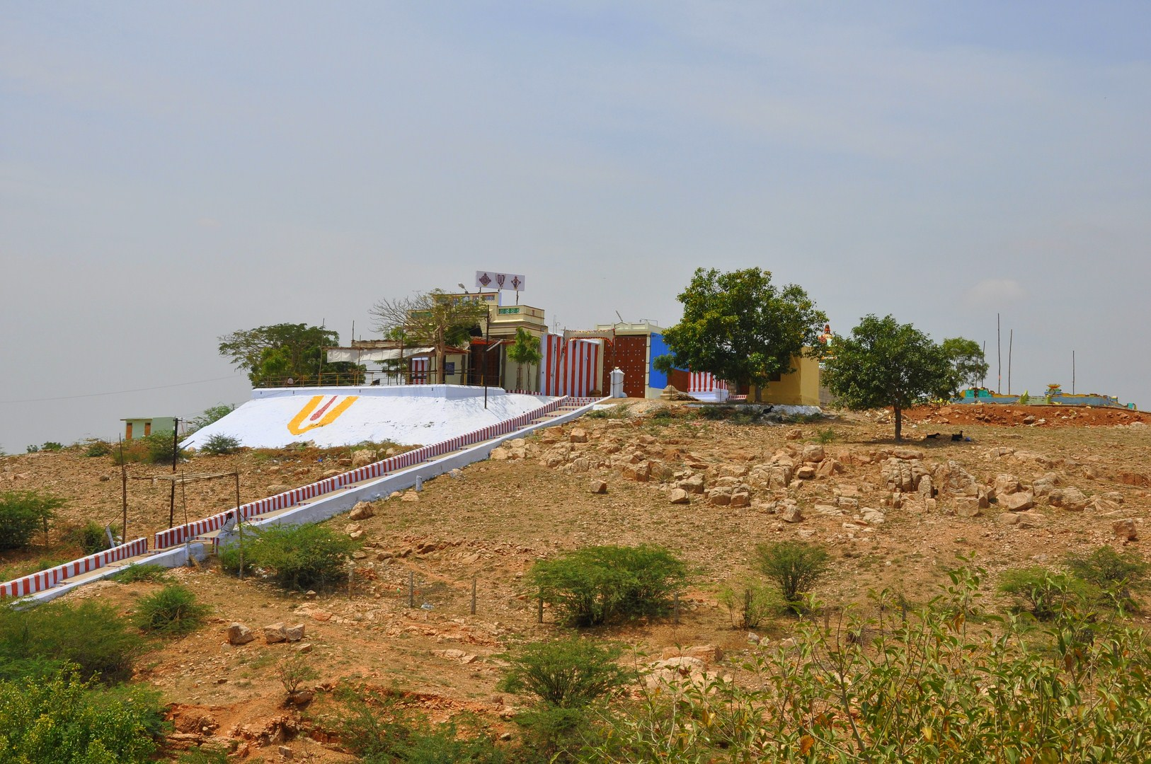 Karungulam